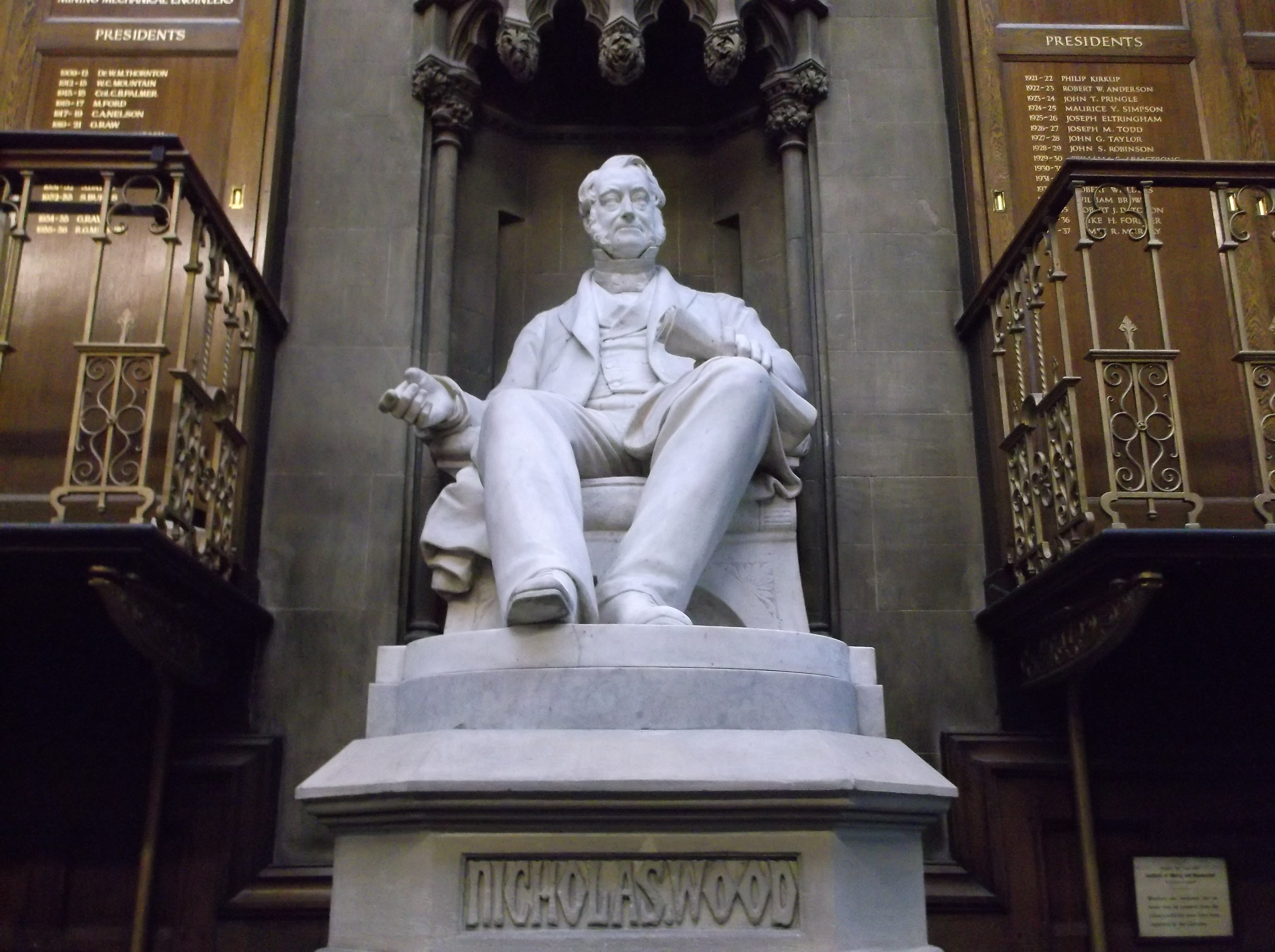 Neville Hall and Wood Memorial Hall, Newcastle upon Tyne; statue of Nicholas Wood (founder and first president of the North of England Institute of Mining and Mechanical Engineers).